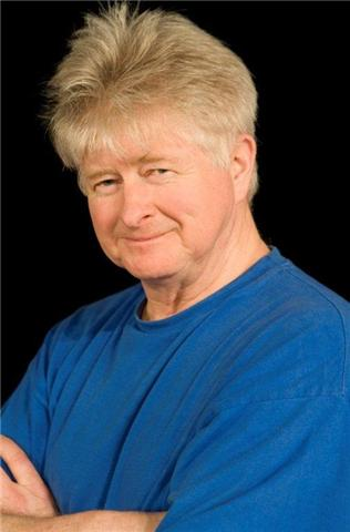 Chris Harris, actor, director and author.